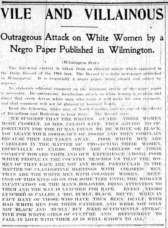 The News & Observer. “Vile and Villainous.” 24 Aug 1898.